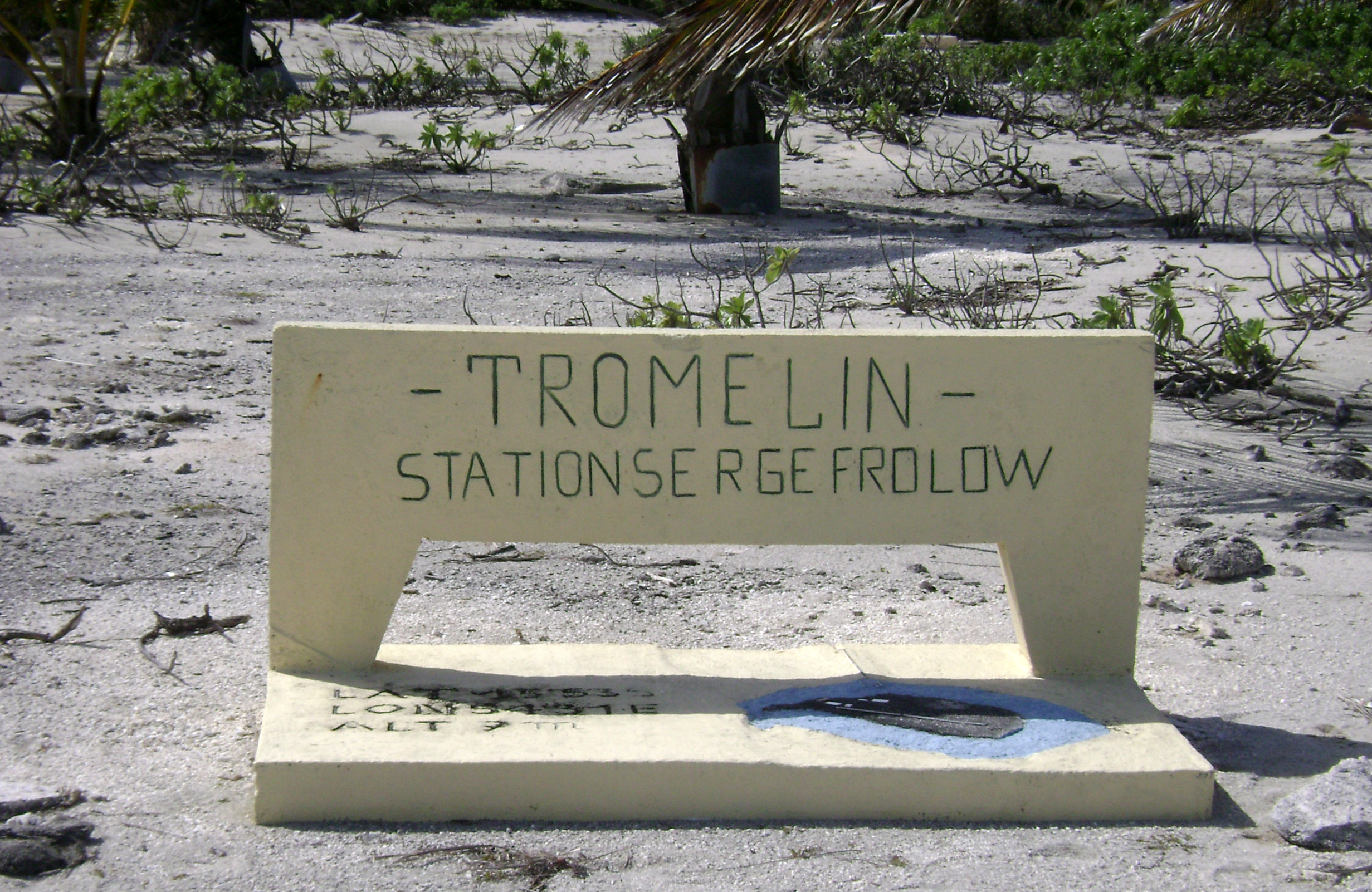 A sign of Tromelin Island's Serge Frolow Weather Station that reads "Tromelin - Station Serge Frolow" [the placement of spaces on the second line is odd]. On the ground-level block are inscribed the the latitude, longitude and altitude of this spot. The island is in Indian Ocean belonging to Scattered islands, within the territory of the France (territory French Southern and Antarctic Lands).